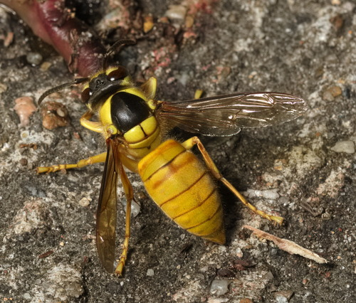 Vespa bicolor, Pok Fu Lam, Hong Kong